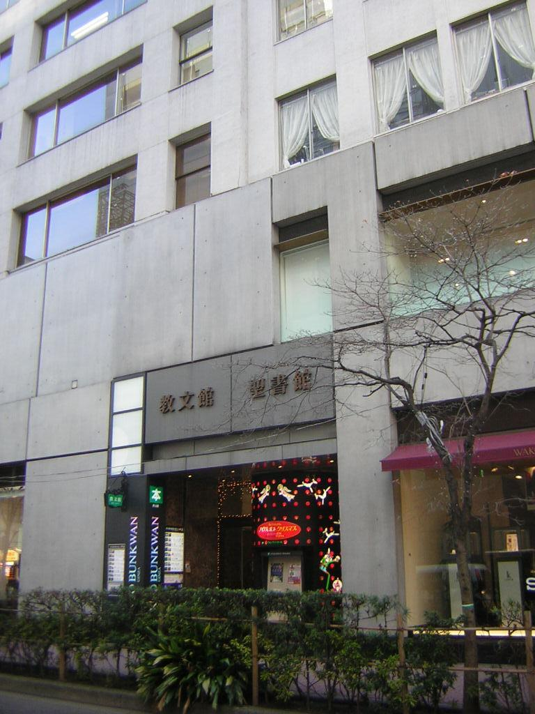 kyobunkwan